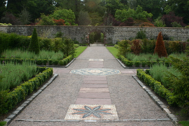 Balloch Country Park Balloch Country Park was recognised as a country park in 1980, and it is the only country park in the Loch Lomond and the Trossachs National Park, Scotland's first national park. Balloch Country Park features nature trails, guided walks, a walled garden, and views of the Loch. It was originally developed in the early 19th century by John Buchanan, a partner in the Glasgow Ship Bank, and the gardens were significantly improved by the Dennistoun-Browns, who bought the estate in 1851. Buchanan also built Balloch Castle, which now serves as the park's visitors' centre.